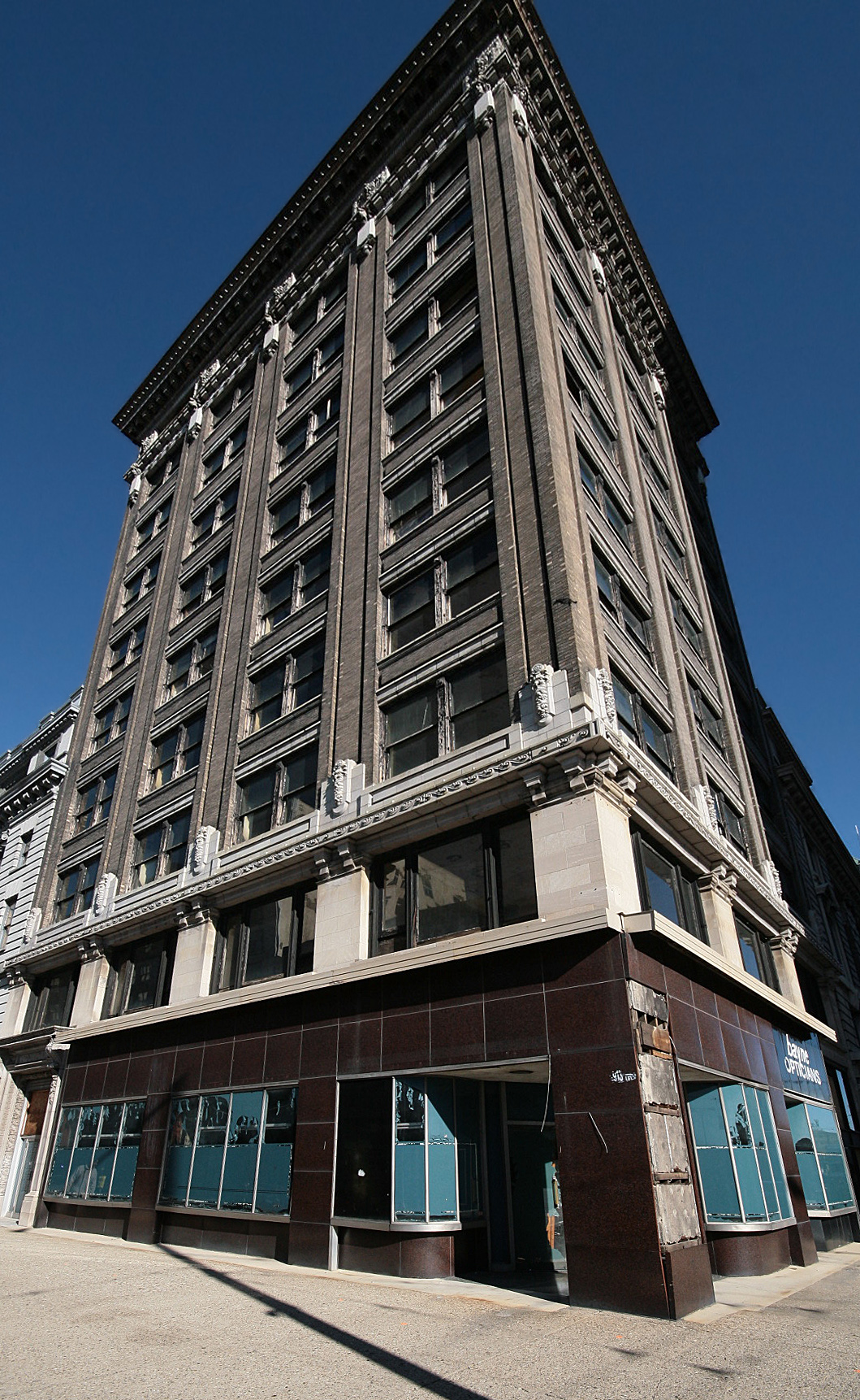 Commercial Building in Dayton, Ohio. Photo by Greg Hume